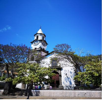 Church of São Brás